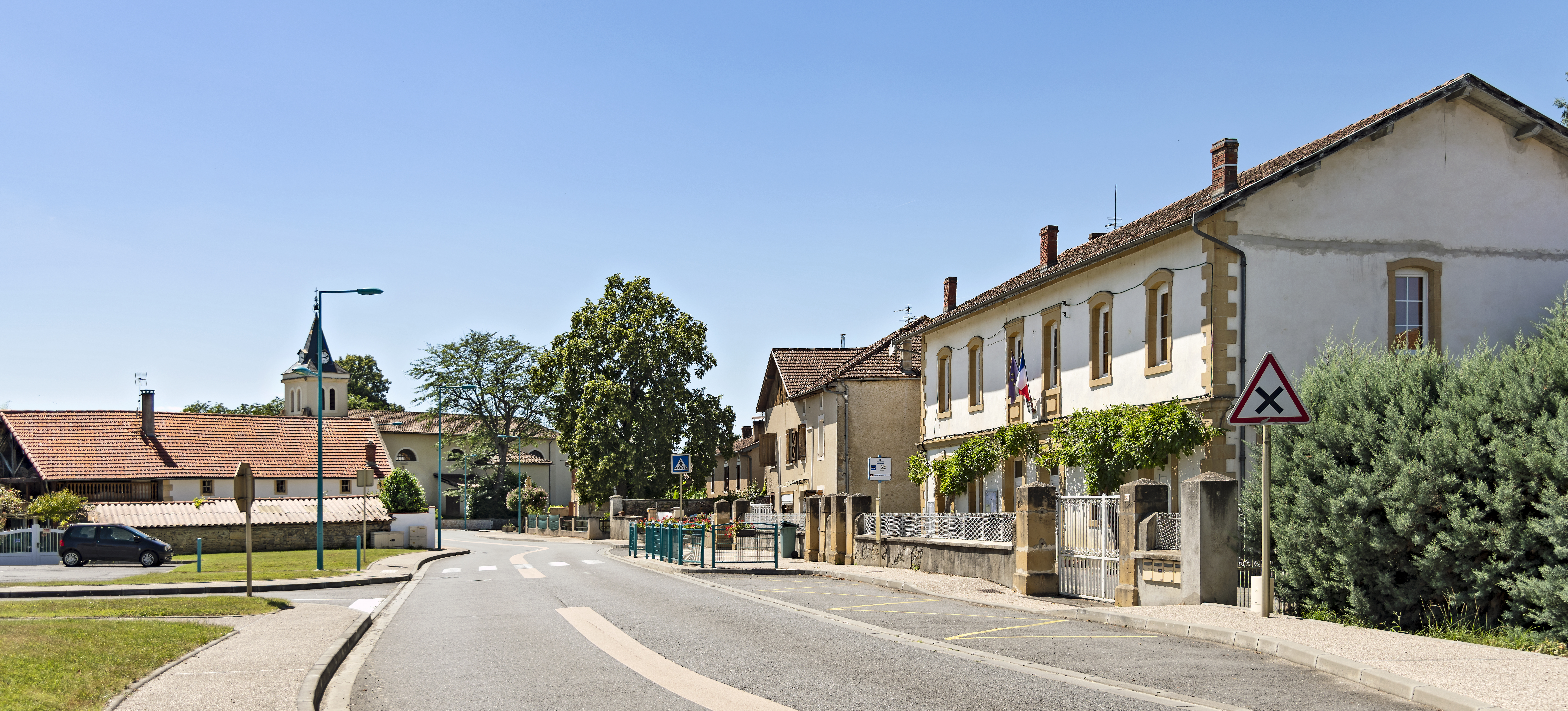 The village center of Figarol, Haute-Garonne, France.